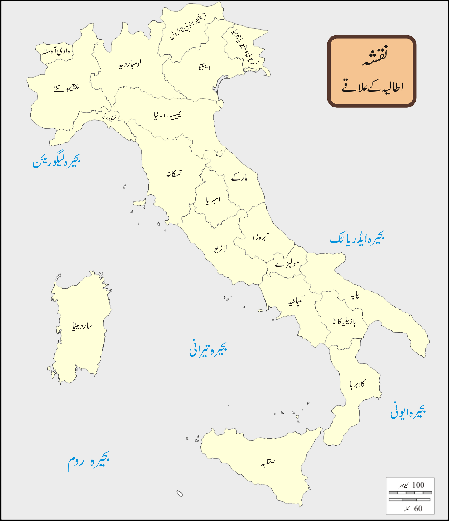 Regions of Italy Names URDU